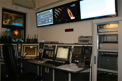 AHBVPA-Central